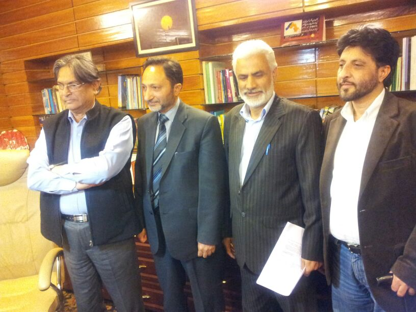 This was the handover takeover meeting on the occasion of the Vice Chancellor being relived from his office and Prof A Shah Dean Academic Affairs taking over.